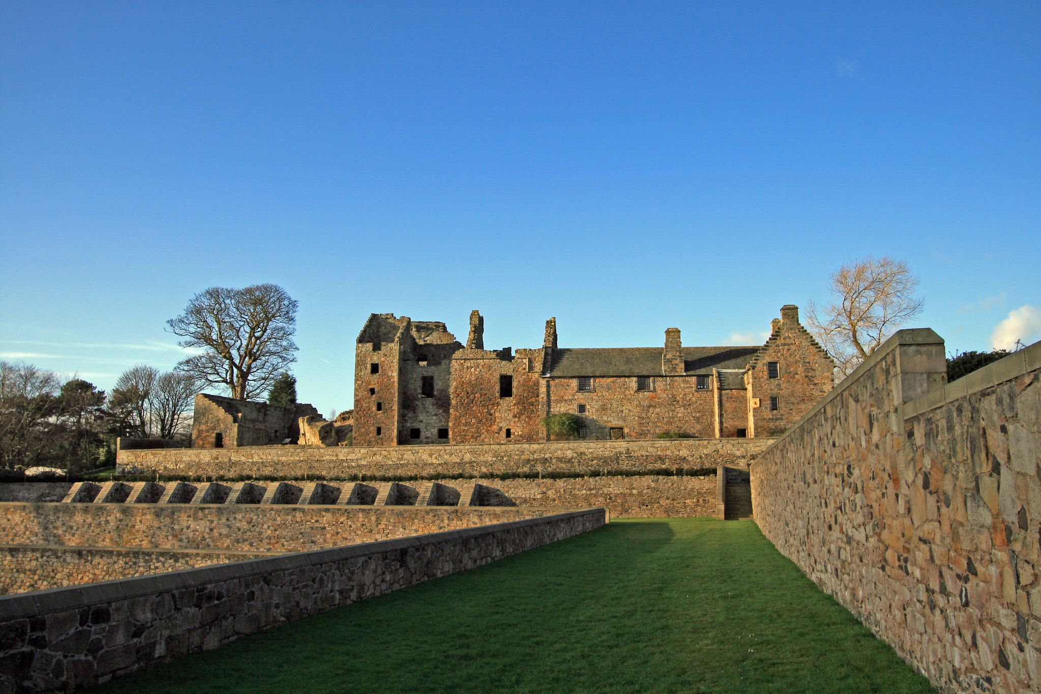 Aberdour Castle, Scotland from the dovecote (or doocot).